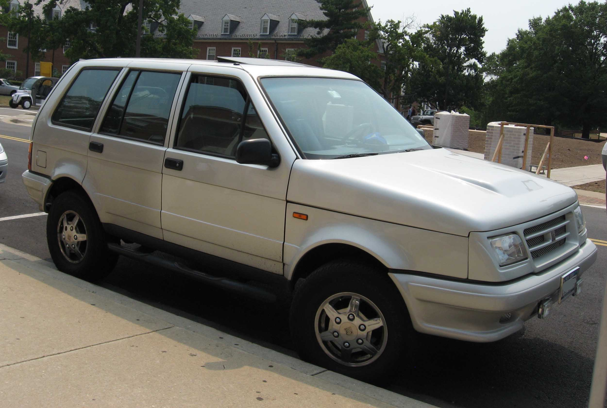 La Forza photographed in USA.